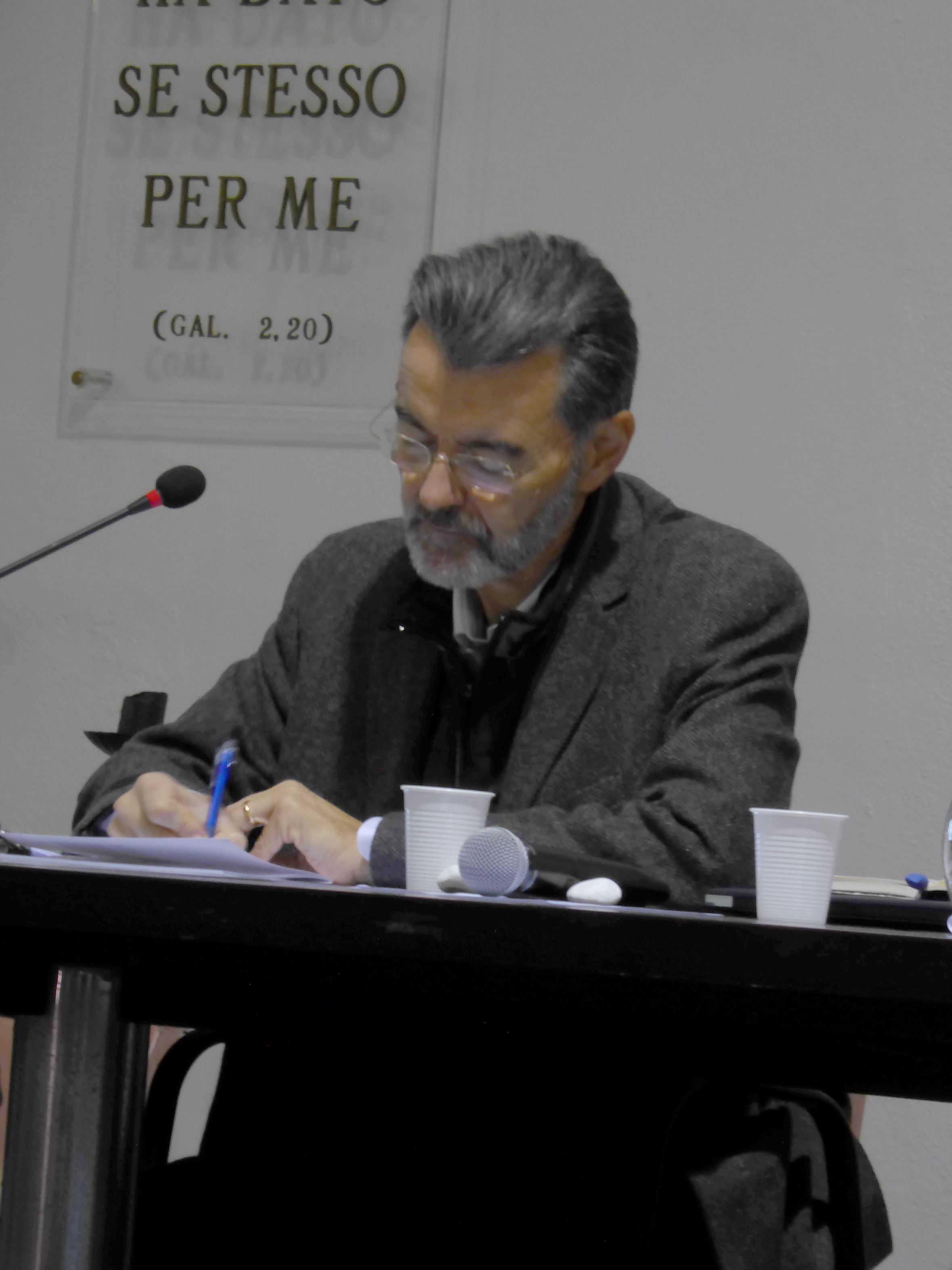 Luciano Moia during the Italian forum of LGBT christians in Albano Laziale